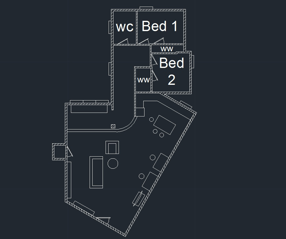 Basic floor plan of Leonard and Sheldons apartment, the setting for most of the scenes in The Big Bang Theory